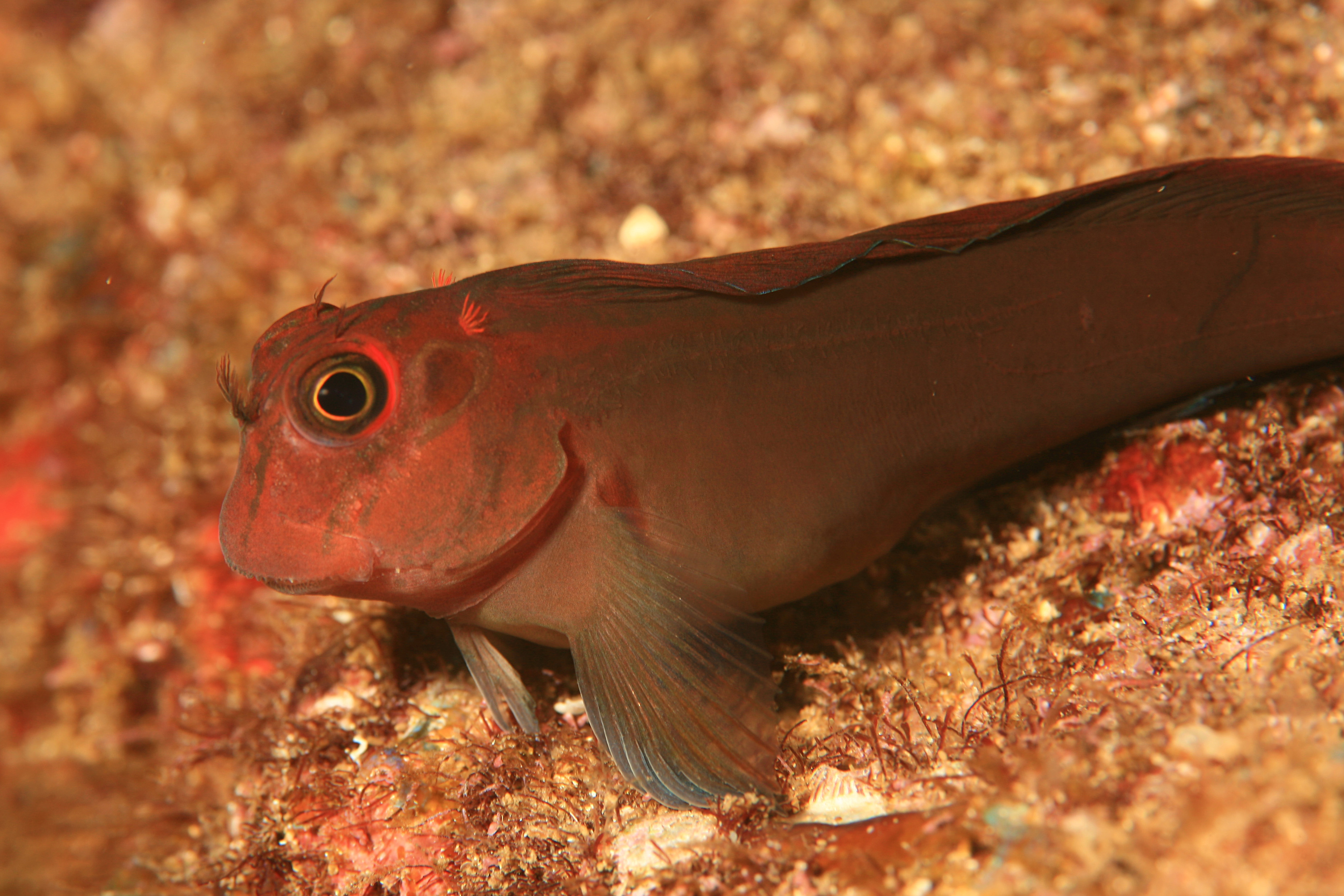 Also known as the Panama Blenny (Ophioblennius steindachneri), this small fish was perched on a rock at Machete dive site in the Coiba National Park, Panama.